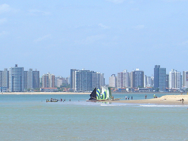 Aracaju, River Sergipe and River Poxim, viewed from Atalaia Nova Beach, Barra dos Coqueiros, Sergipe, Brazil